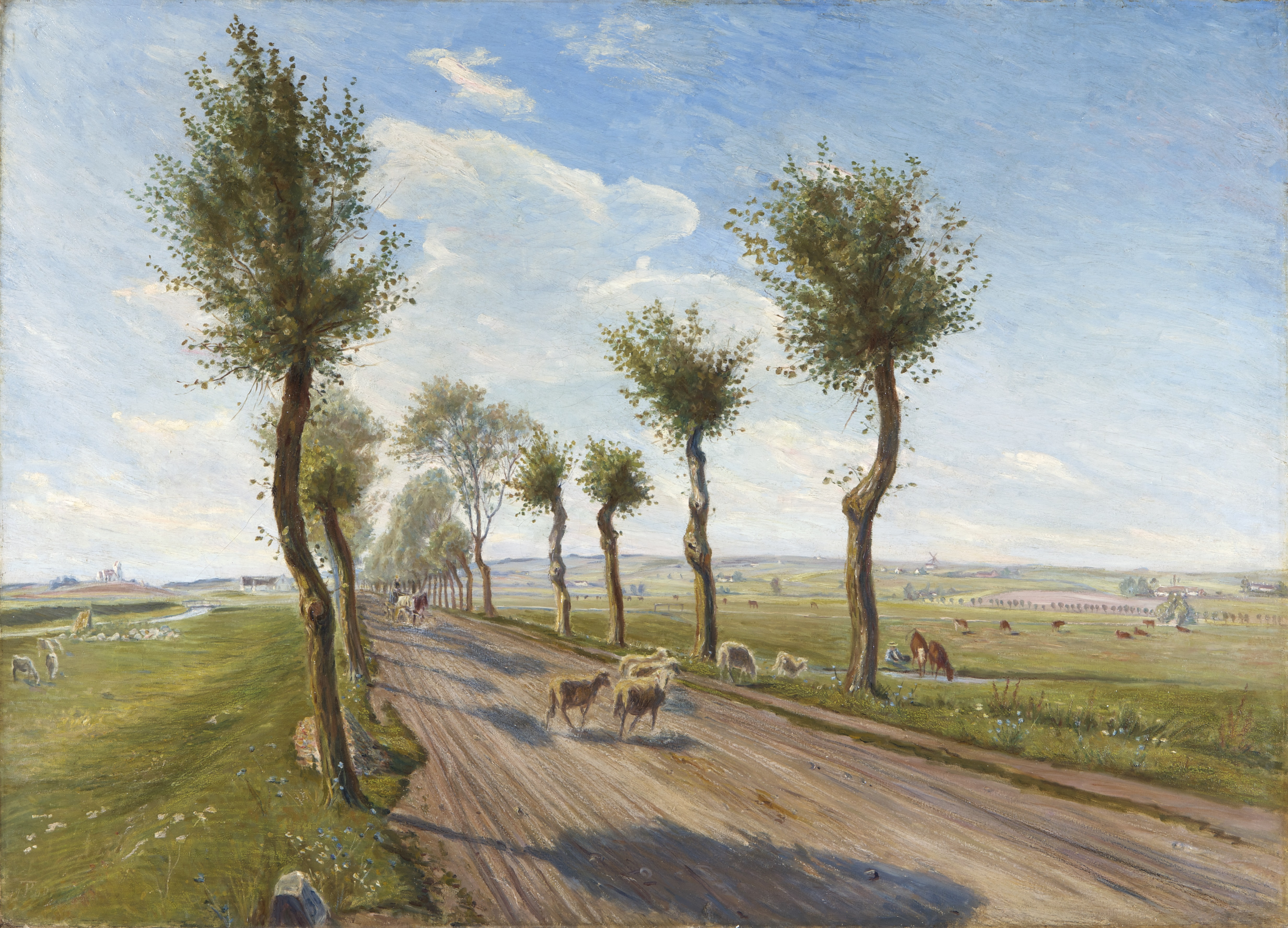 Painting titled "Landvej ved Faarevejle" (Country Road near Faarevejle) by the Danish artist Theodor Philipsen. The painting shows the view to the south-west from the present 225 main road about 1 km north east of Fårevejle. The work is in the collection of Odsherreds Kunstmuseum.